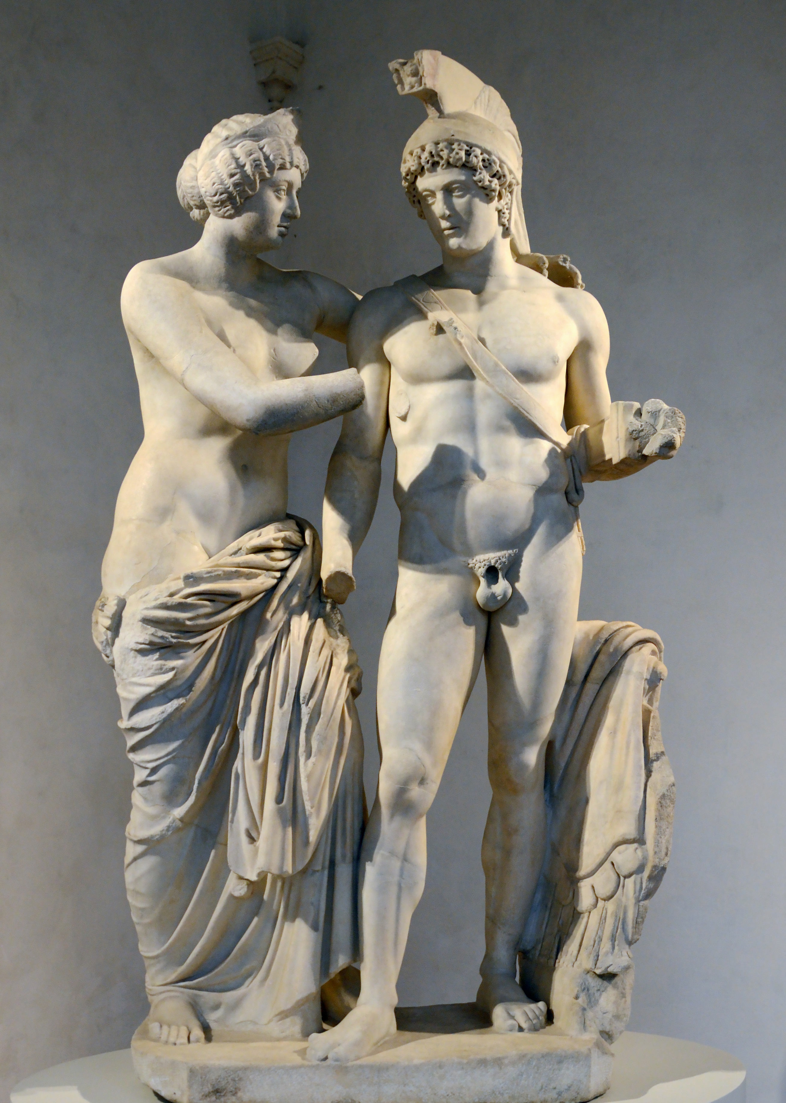 Group of Mars and Venus in the National Roman Museum Baths of Diocletian.